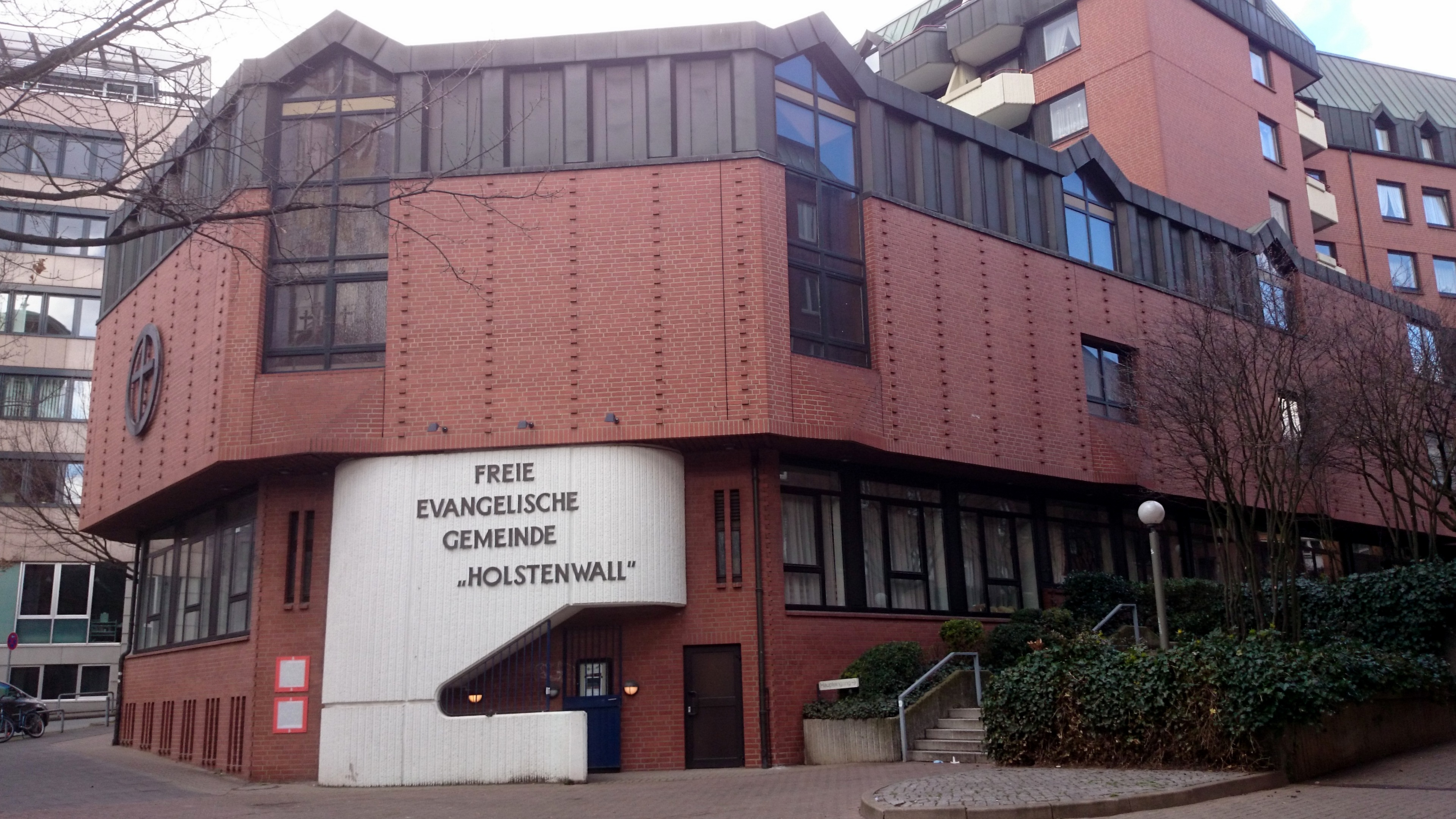 Hamburg in spring